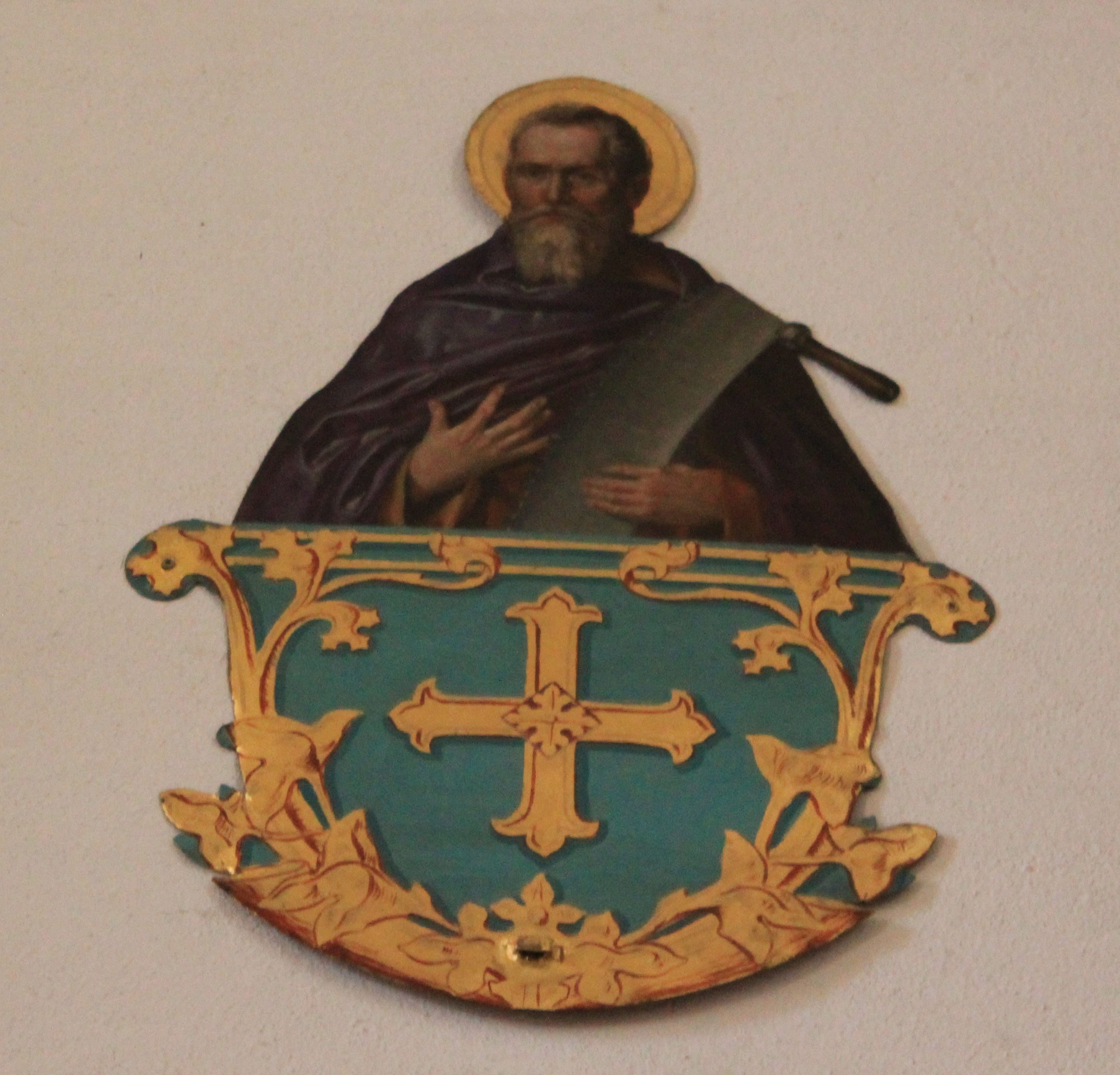 Parish church Irschen - Simon the Zealot